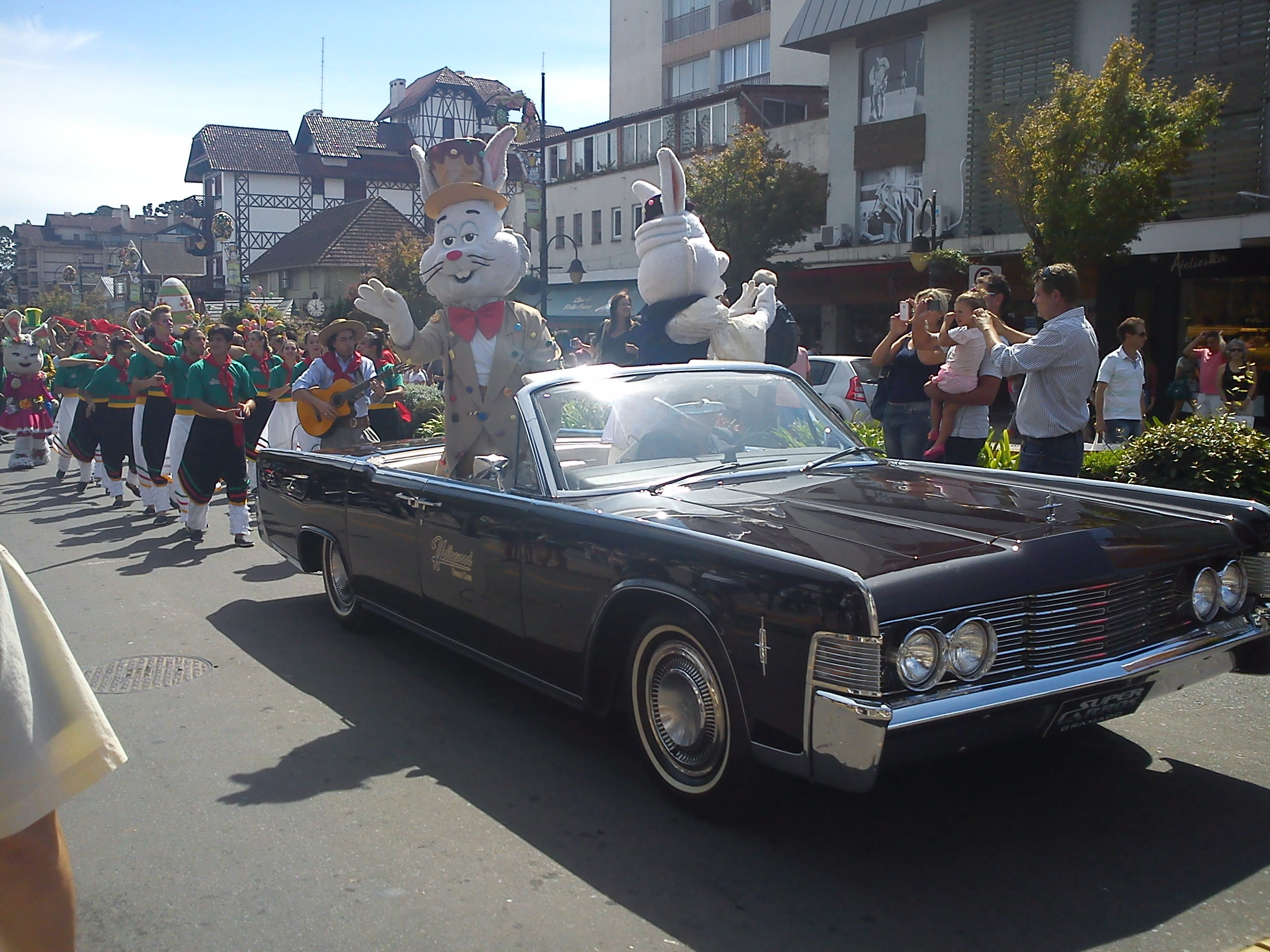 Chocofest - Gramado - RS - Brazil.